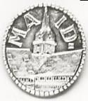 Reifensteiner Schule Schulnadel Wöltingerode Fotografin Schnier